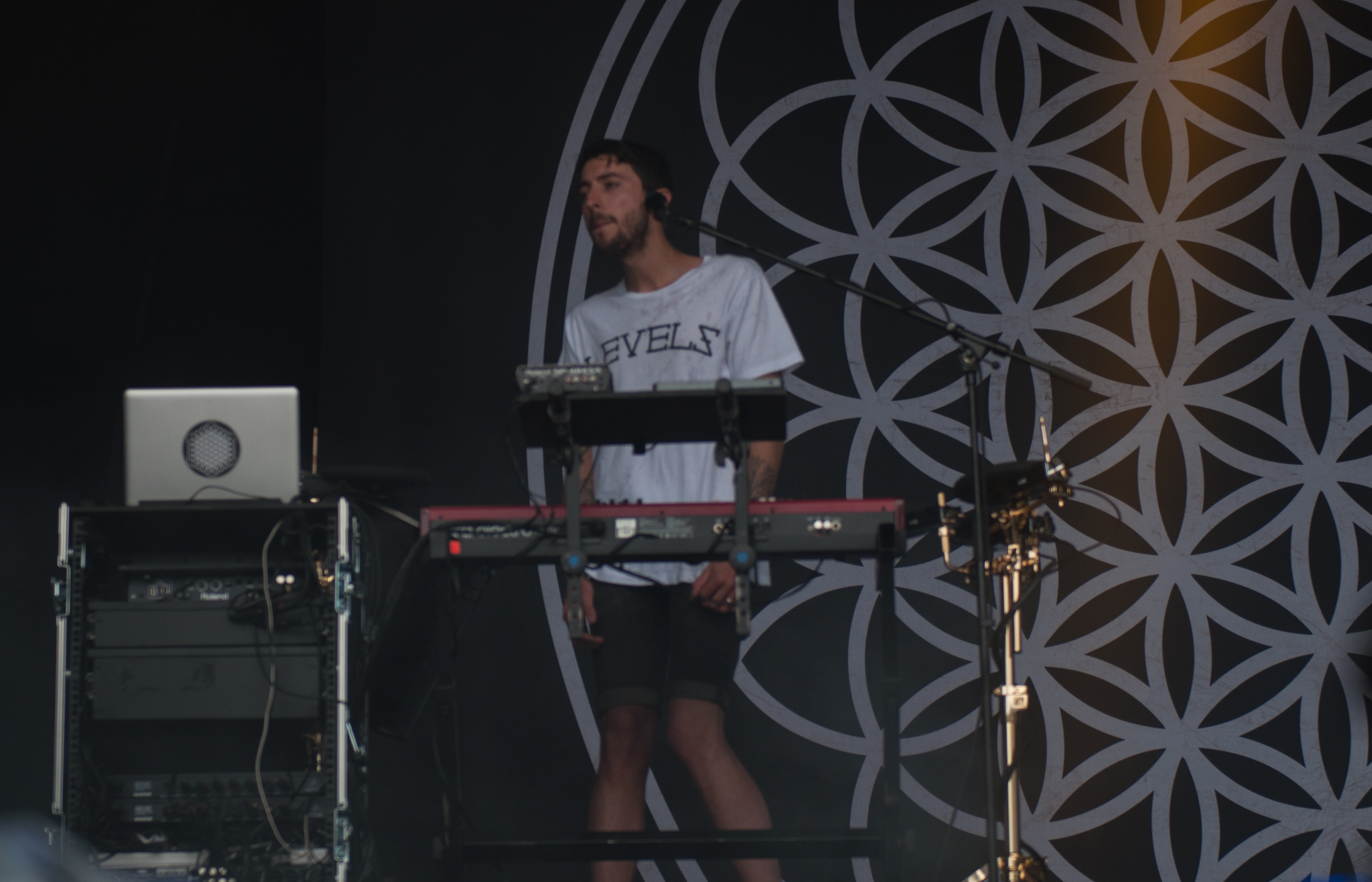 Bring Me the Horizon at Vainstream Rockfest 2014